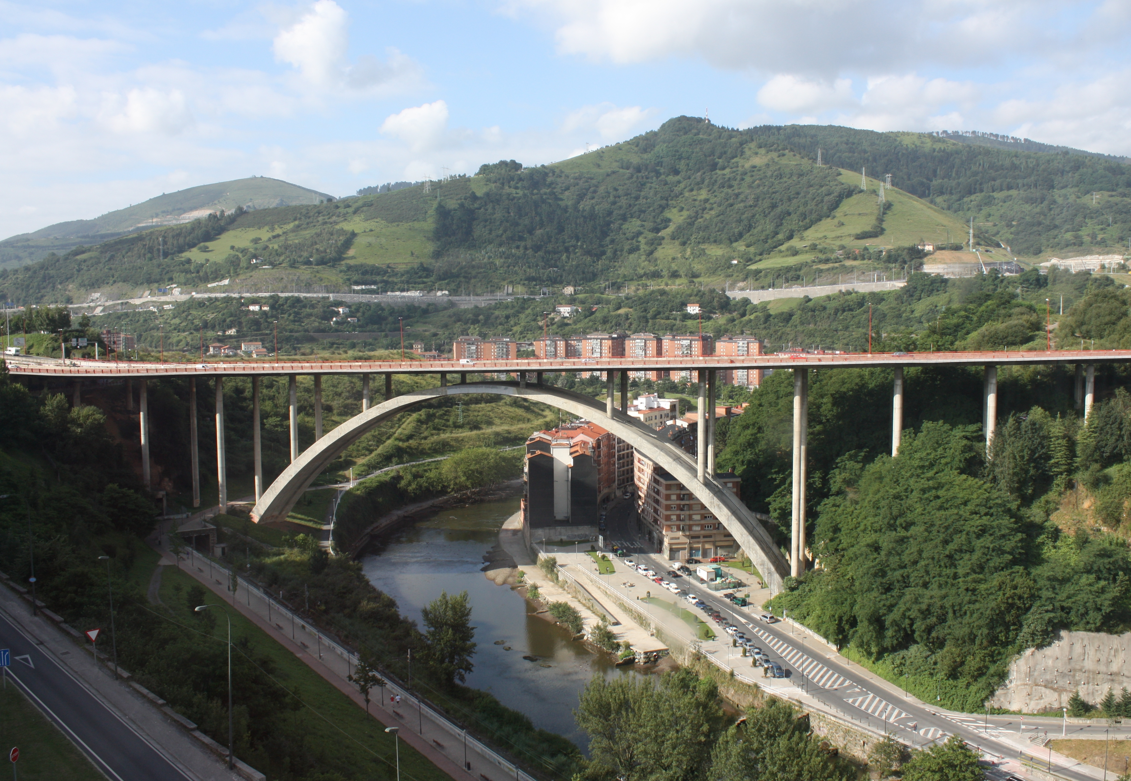 Miraflores Bridge (over the Nervion River), Bilbao, Biscay, Spain, July 2010